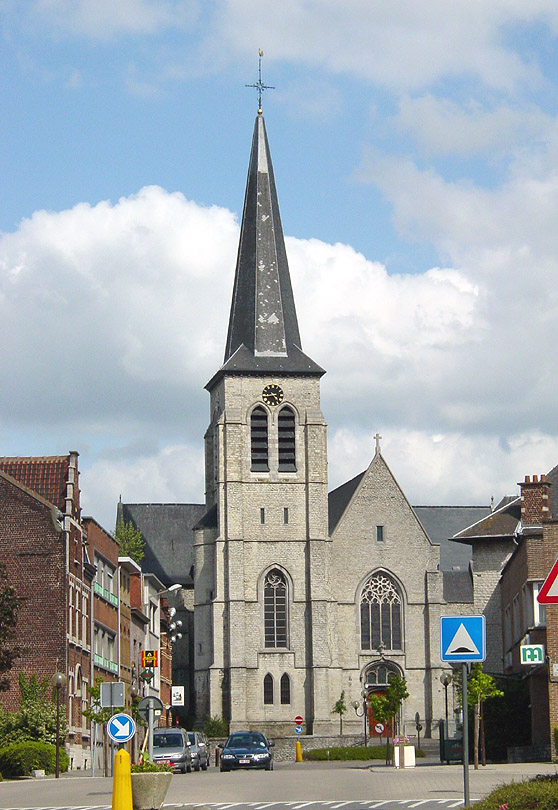 Photograph of the church of St Gertrudis, Machelen